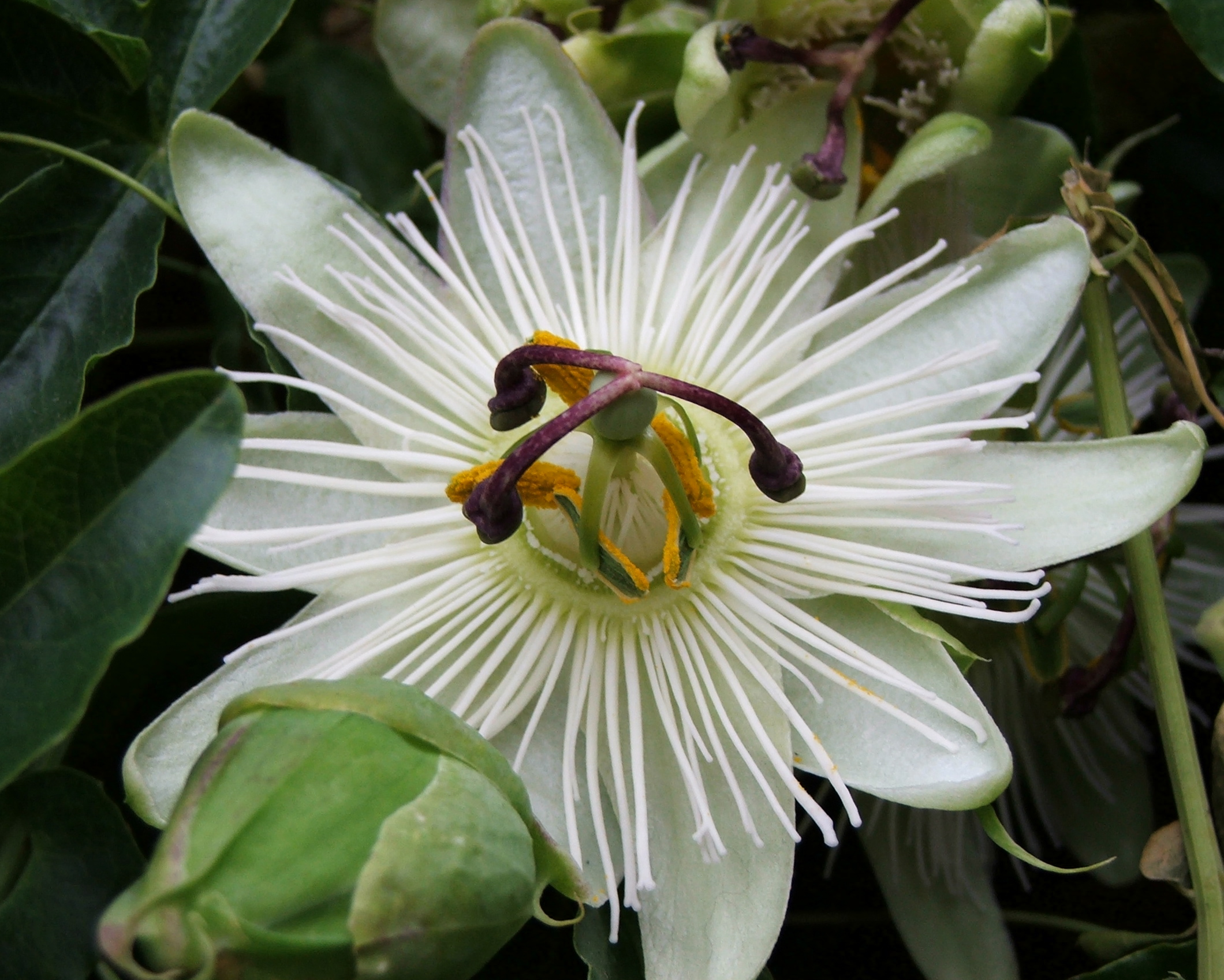 of the lovely passion flowers at home.